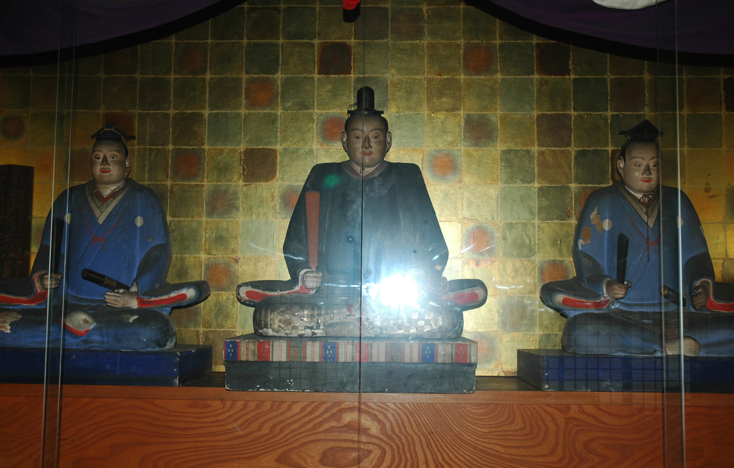 wooden statue of Nakamura Kazutada and his vassal who followed one's lord to the grave Tarui Kageyu and Hattori Wakasa in Kannoji Yonago, Tottori, Japan